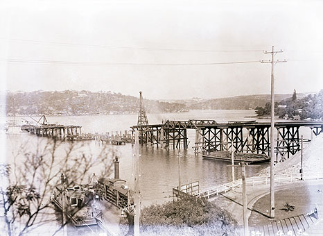 The Spit Bridge under construction - the Spit punt can be seen in the foreground Dated: 04/09/1924 Digital ID: 9856_a017_A017000199 Rights: We'd love to hear from you if you use our photos. Many other photos in our collection are available to view and browse on our website using Photo Investigator.